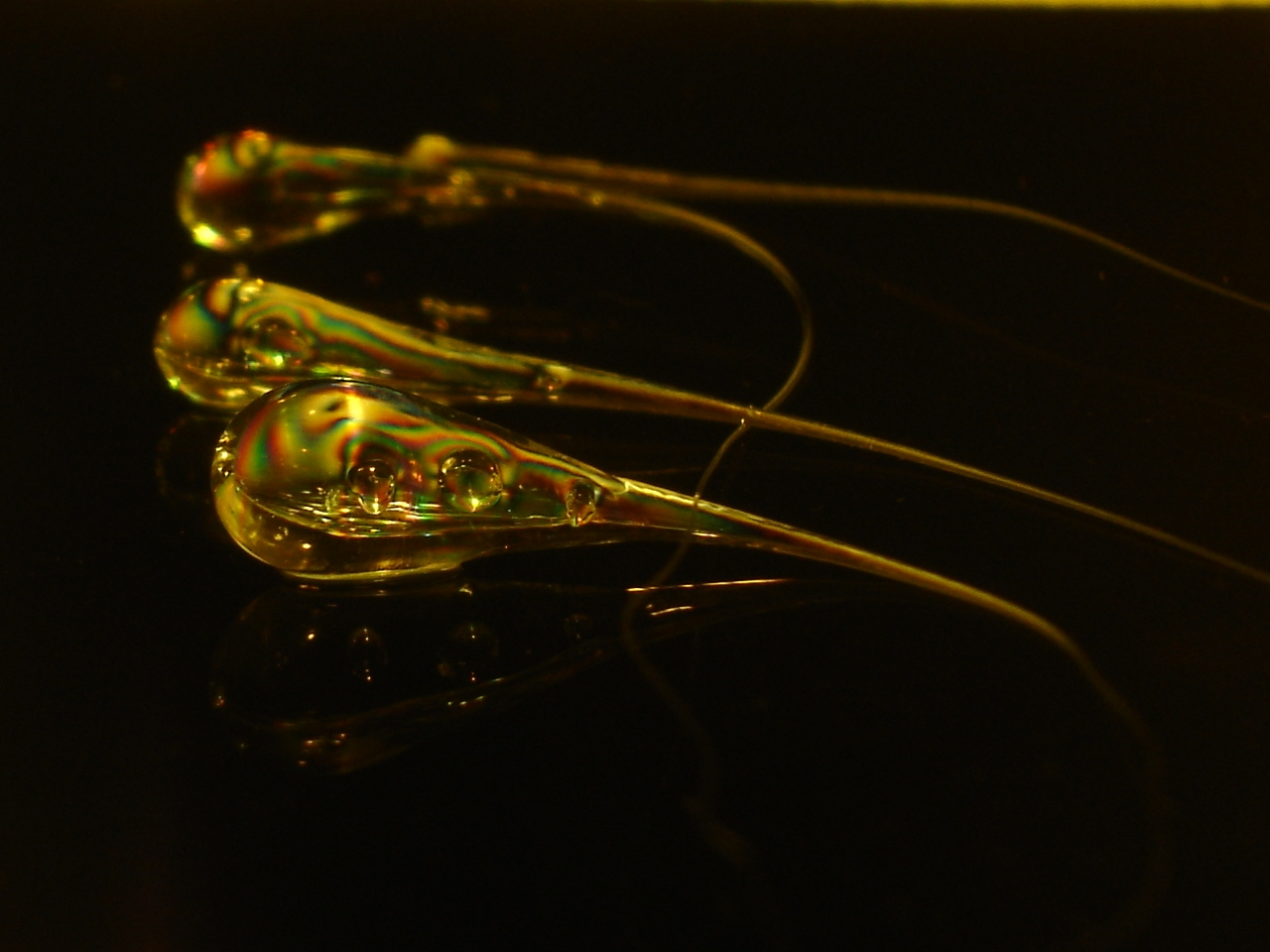 Michael Grogan, 1/27/06. University of Virginia.